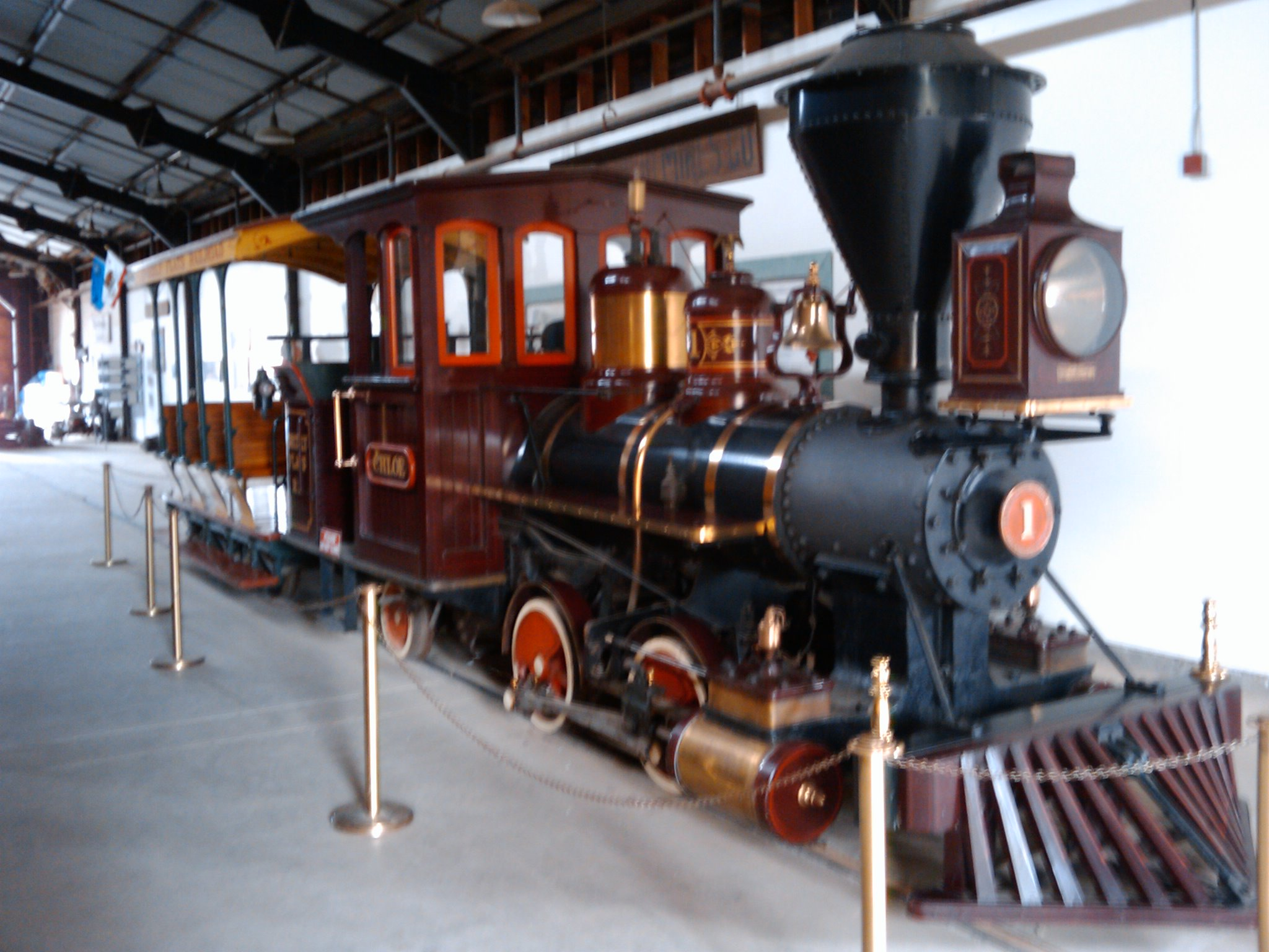 The Chloe locomotive from the former Grizzly Flats Railroad at the Orange Empire Railroad Museum.